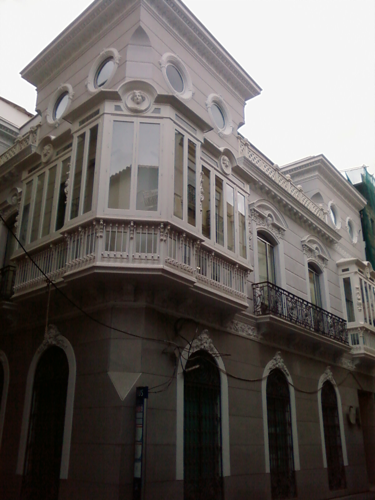 Andalusian Centre for Arts, Málaga, Spain